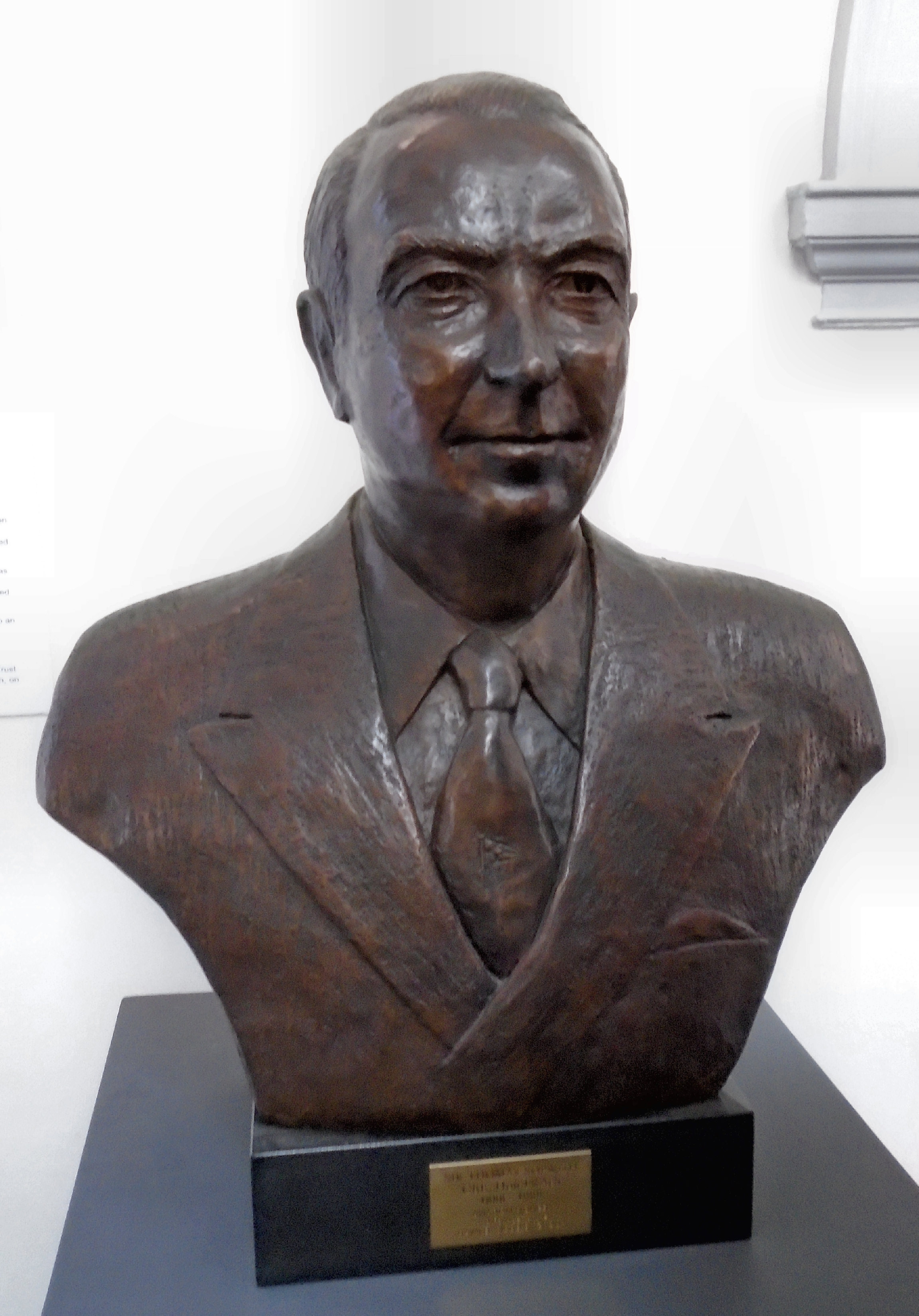 Bust of Sir Thomas Octave Murdoch Sopwith in Kingston library. By Ambrose Barber (2014)